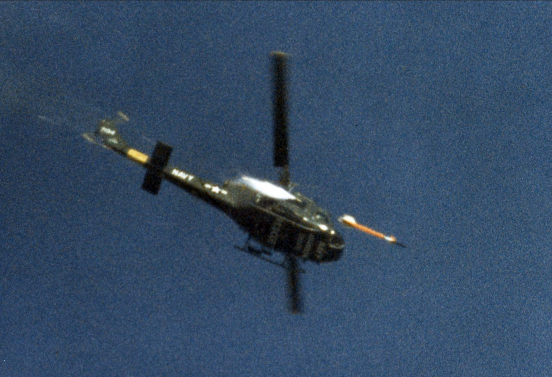 An U.S. Navy HH-1K Huey fires an AIM-9L Sidewinder air-to-air missile against a ground target (M47 tank) at the U.S. Navy Naval Weapons Center (NWC) China Lake, California, 12 October 1971.